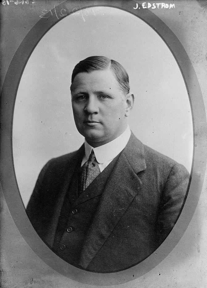 Bain News Service,, publisher. Sigfrid Edström [between ca. 1910 and ca. 1915] 1 negative : glass ; 5 x 7 in. or smaller. Notes: Title from unverified data provided by the Bain News Service on the negatives or caption cards. Forms part of: George Grantham Bain Collection (Library of Congress). Format: Glass negatives. Repository: Library of Congress, Prints and Photographs Division, Washington, D.C. 20540 USA, General information about the Bain Collection is available at Persistent URL: Call Number: LC-B2- 2866-15